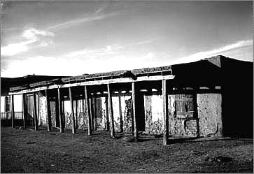 Photograph of Kit Carson's home in Taos, 1900